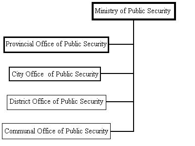 Ministry of Public Security field organization (self made)